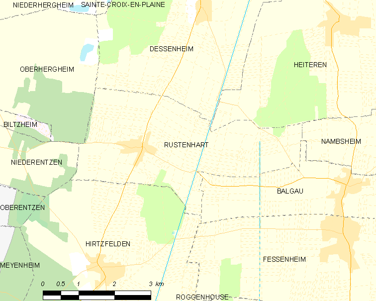 Map of French municipality